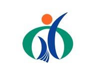 Flag of Shimanto-town Kochi